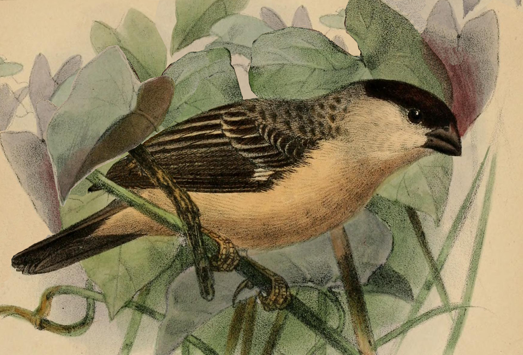 « Spermophila pileata » = Sporophila pileata (Pearly–bellied Seedeater) - male